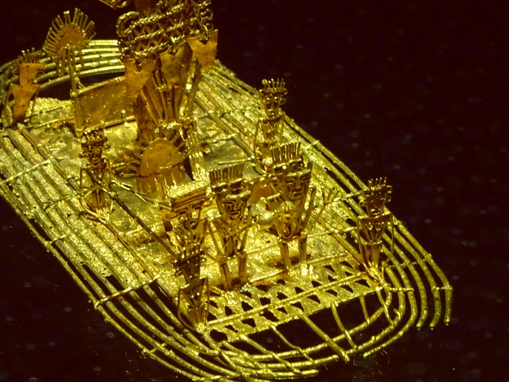 Detail of famous Muisca raft, Museo del Oro (Gold Museum), Bogotá